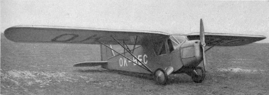 Beneš-Mráz Be-60 photo from L'Aerophile June 1936